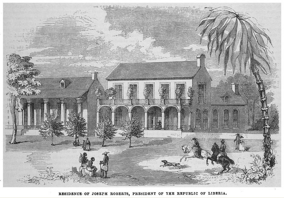 Monrovia, Residence of Joseph Roberts, President of the Republic of Liberia